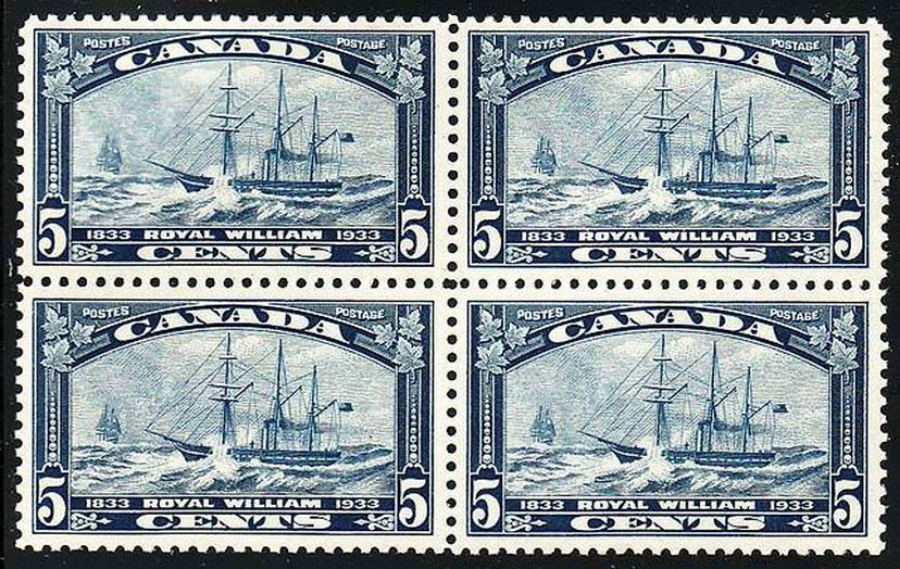 Canada Postage stamp, 1933 issue, 5c